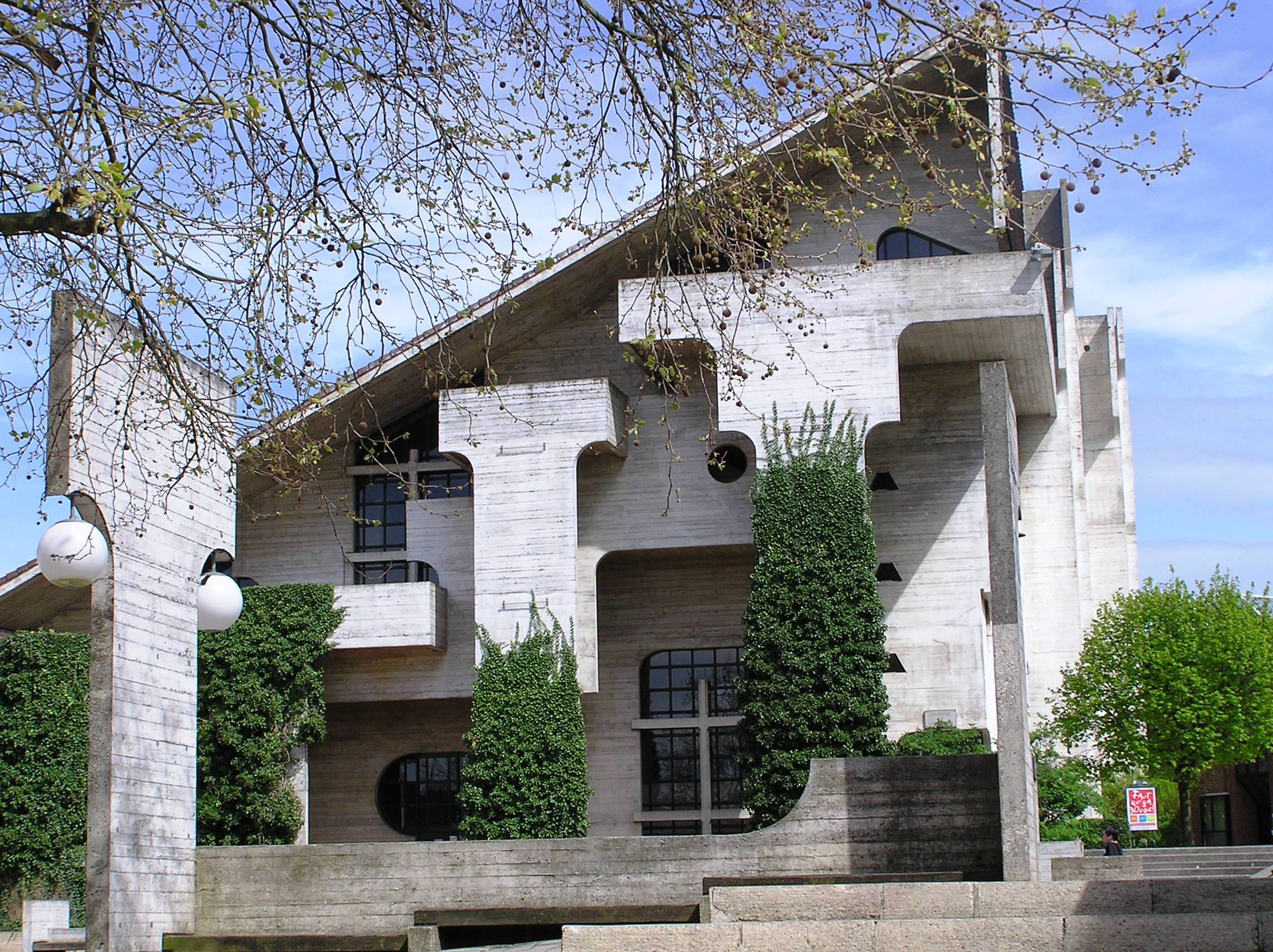 Front of the library of the Science faculty of the Université Catholique de Louvain in Louvain-la-Neuve, symbol of the UCL